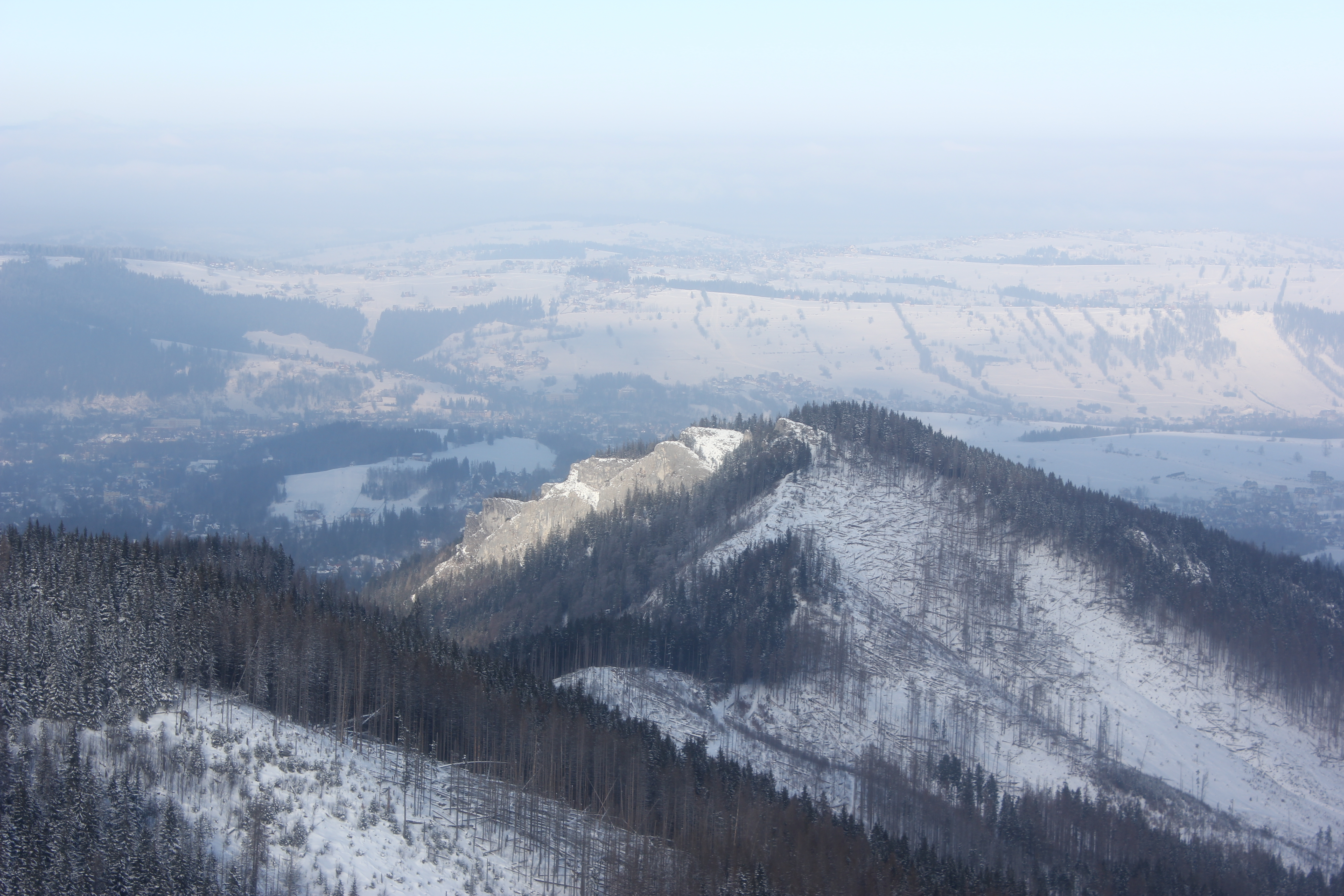 Mount Nosal seen from Skupniów Upłaz